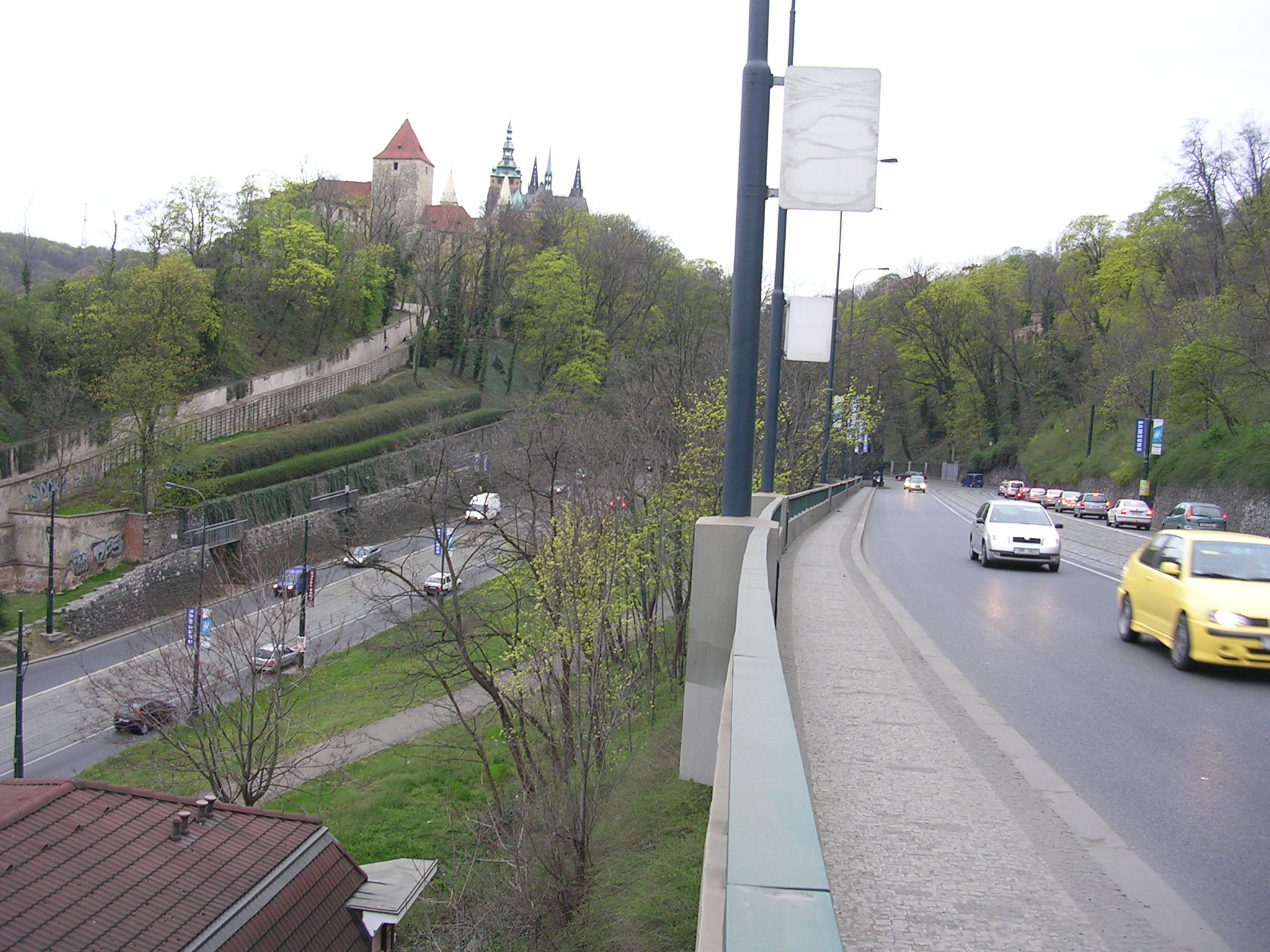 Hradčany and Malá Strana, Prague, the Czech Republic.